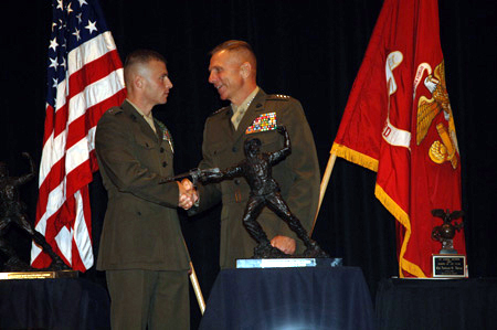 Commandant of the Marine Corps Gen. Michael W. Hagee congratulates Capt. Christopher J. Bronzi after presenting him the Leftwich Trophy for Outstanding Leadership during the Marine Corps Association Ground Awards Dinner Oct. 6 in Crystal City, Arlington, Virginia. (unaltered)